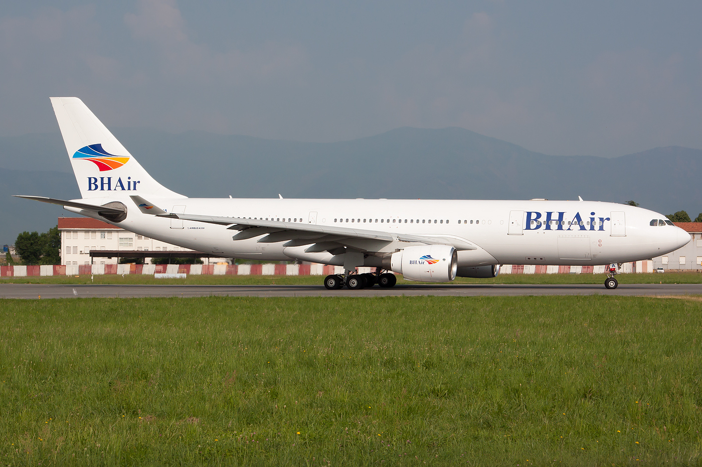 BH Air Airbus A330-223 at Turin Airport